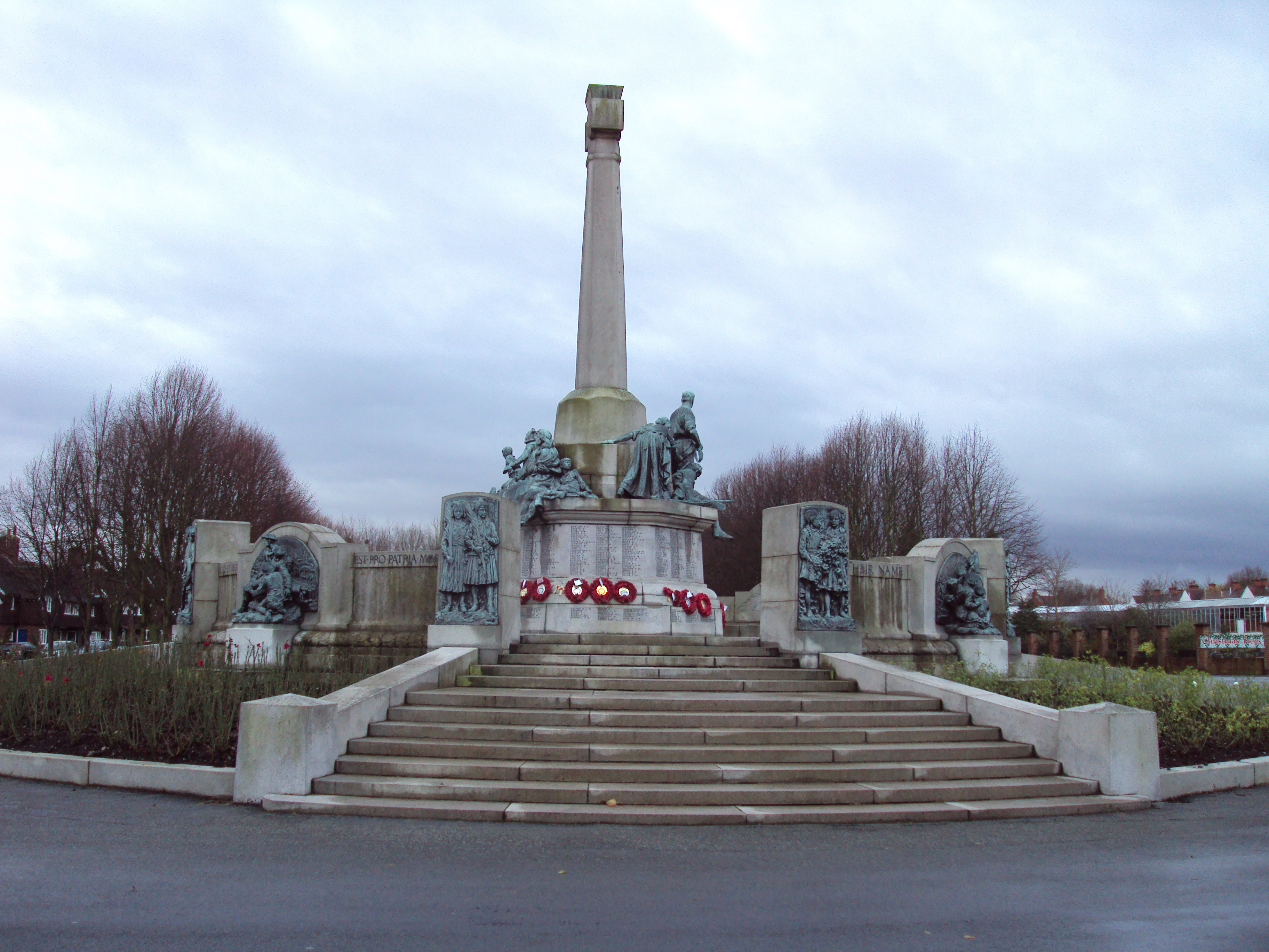 Port Sunlight War Memorial, Wirral, England.